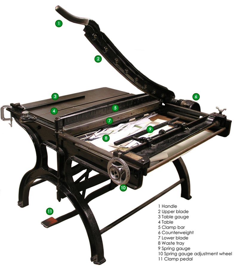 Diagram of a typical board shear used in bookbinding, showing major parts and controls. This board shear is a John Jacques model from the late 1800s or early 1900s, and is still in daily use.